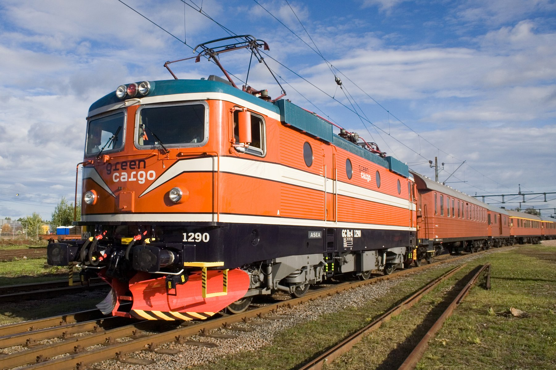 Rc4 owned by Green Cargo in its original livery as it has been used by SJ. The picture was taken on the yard of the Swedish railway museum at Gävle, during the Tag150 festivities.